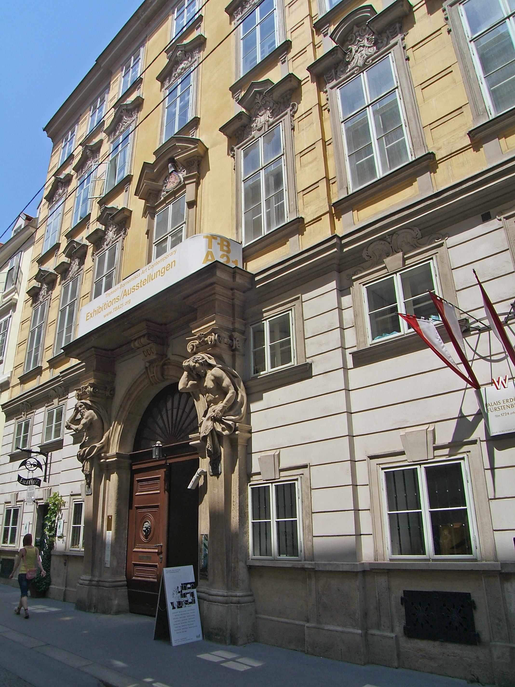 Palais Erdödy-Fürstenberg in Vienna, 1st district Himmelpfortgasse 13